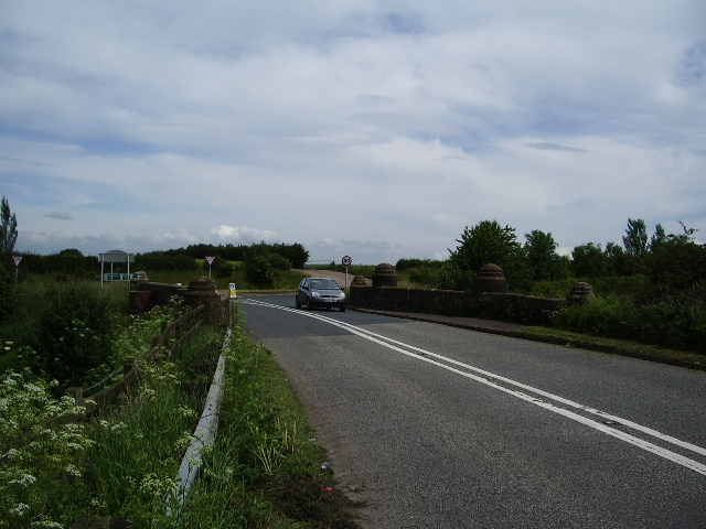 Road bridge Bridge carrying the B5302 over the railway before its junction with the A596